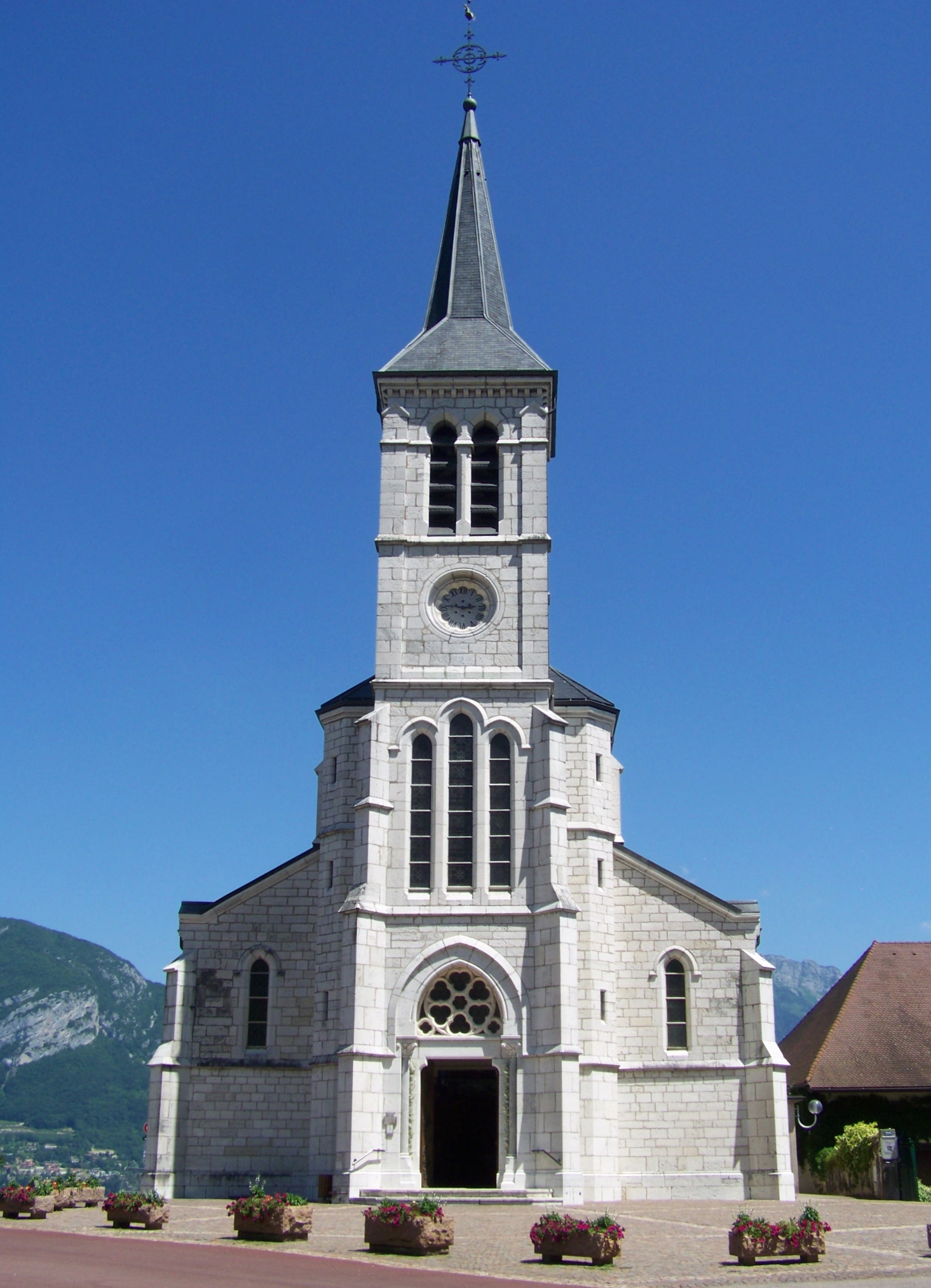 City of Sevrier church, close to the lake of Annecy in Haute-Savoie, France.